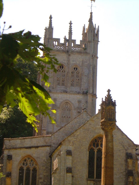 St Peter's church, Staple Fitzpaine, Somerset. Seen from the east.